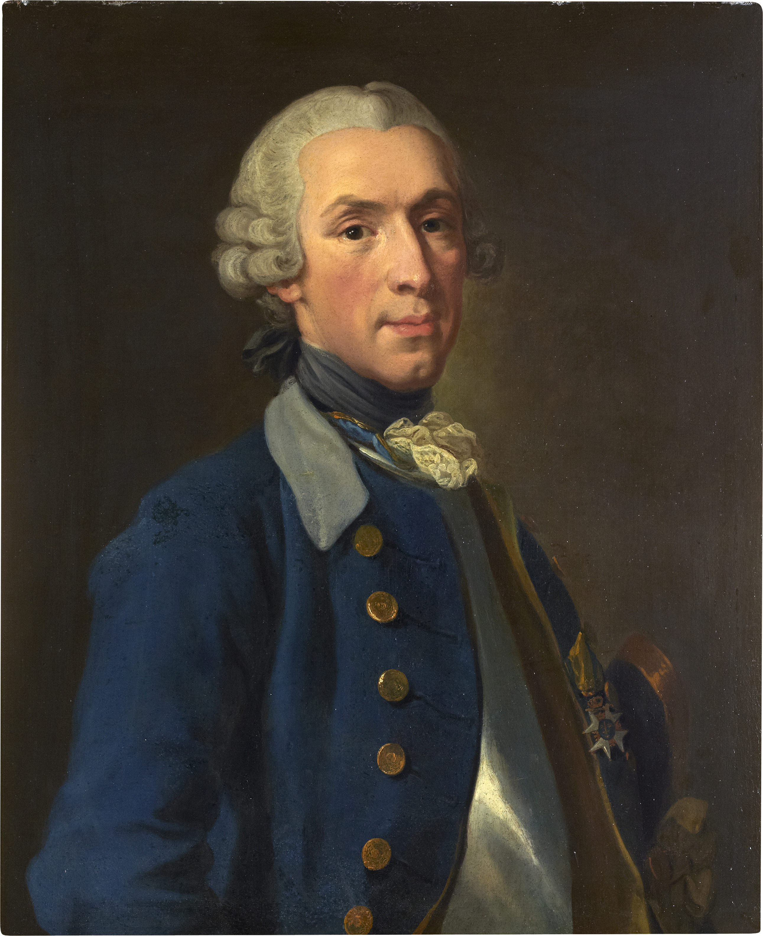 Porträtt föreställande kaptenlöjtnant Peter von Stierneman (1722‑1768), avbildad iklädd uniform m/1756 för flottan/amiralitetet. Under rocken syns ett harnesk, och under armen hans tricorne. På bröstet bär han Svärdsordens riddartecken. Målningen tillskriven Lorens Pasch den yngre ca 1760.